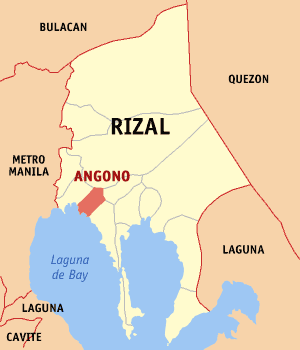 Locator map of Angono in Rizal, Philippines.